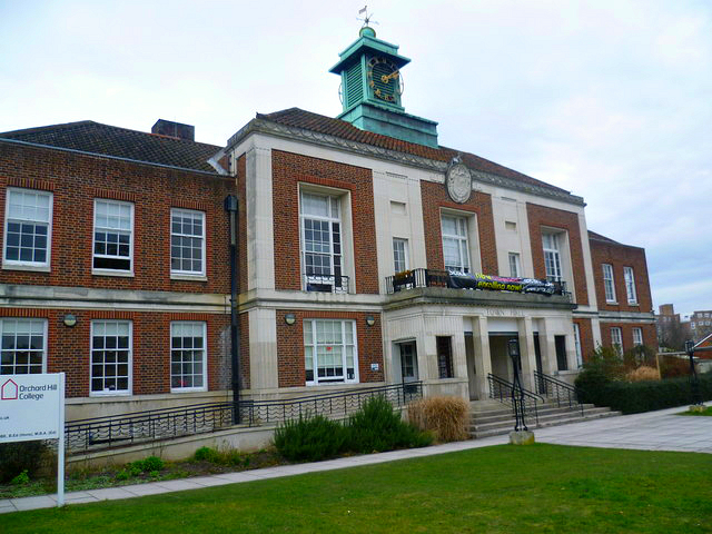 After the First World War, the population of Wallington increased rapidly and the local Urban District Council outgrew its various offices and so, in 1929, purchased an old house, Sunny Bank, in Woodcote Road and decided to commission a new Town Hall, to be built on Sunny Banks site. The Council became a Borough in 1937, and the Town Hall was the hub of community life up until the incorporation of Beddington and Wallington into the London Borough of Sutton in 1964, and even then, the Council Chamber was used for the new Council's meetings until 1977. Parts of the building continued to be used by other organisations such as the WRVS, the Registrar of Births, Marriages and Deaths, and as a Driving Test Centre. In 1980 it was taken over and converted into a Crown Court. The building ceased to be a Court in April 1999, and has now been converted for educational use.